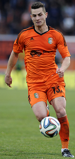 Milcho Angelov